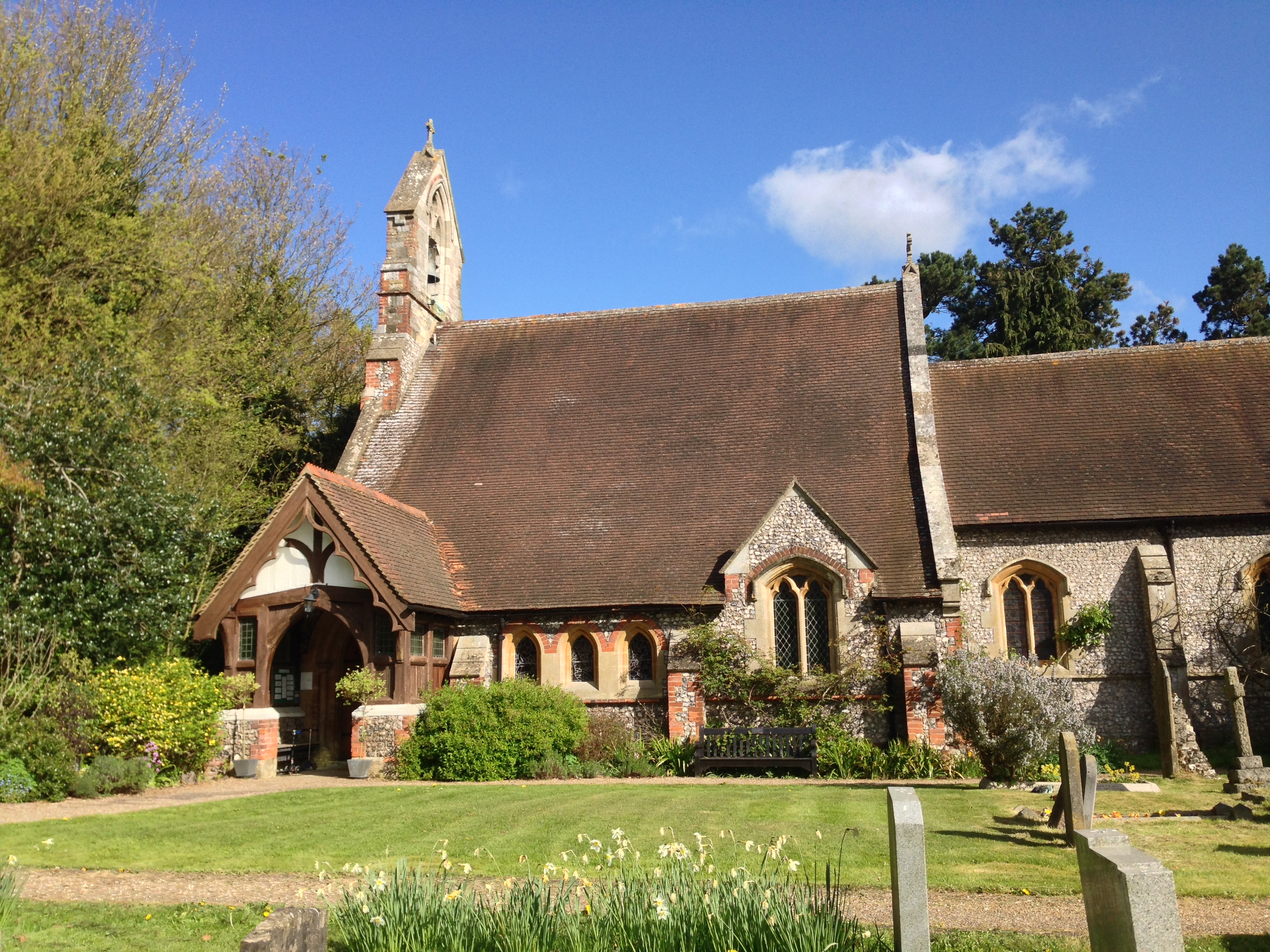 St Margaret's parish church, Halstead, Kent, seen from the south